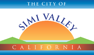 The official flag of Simi Valley, CA, adopted in 2012.